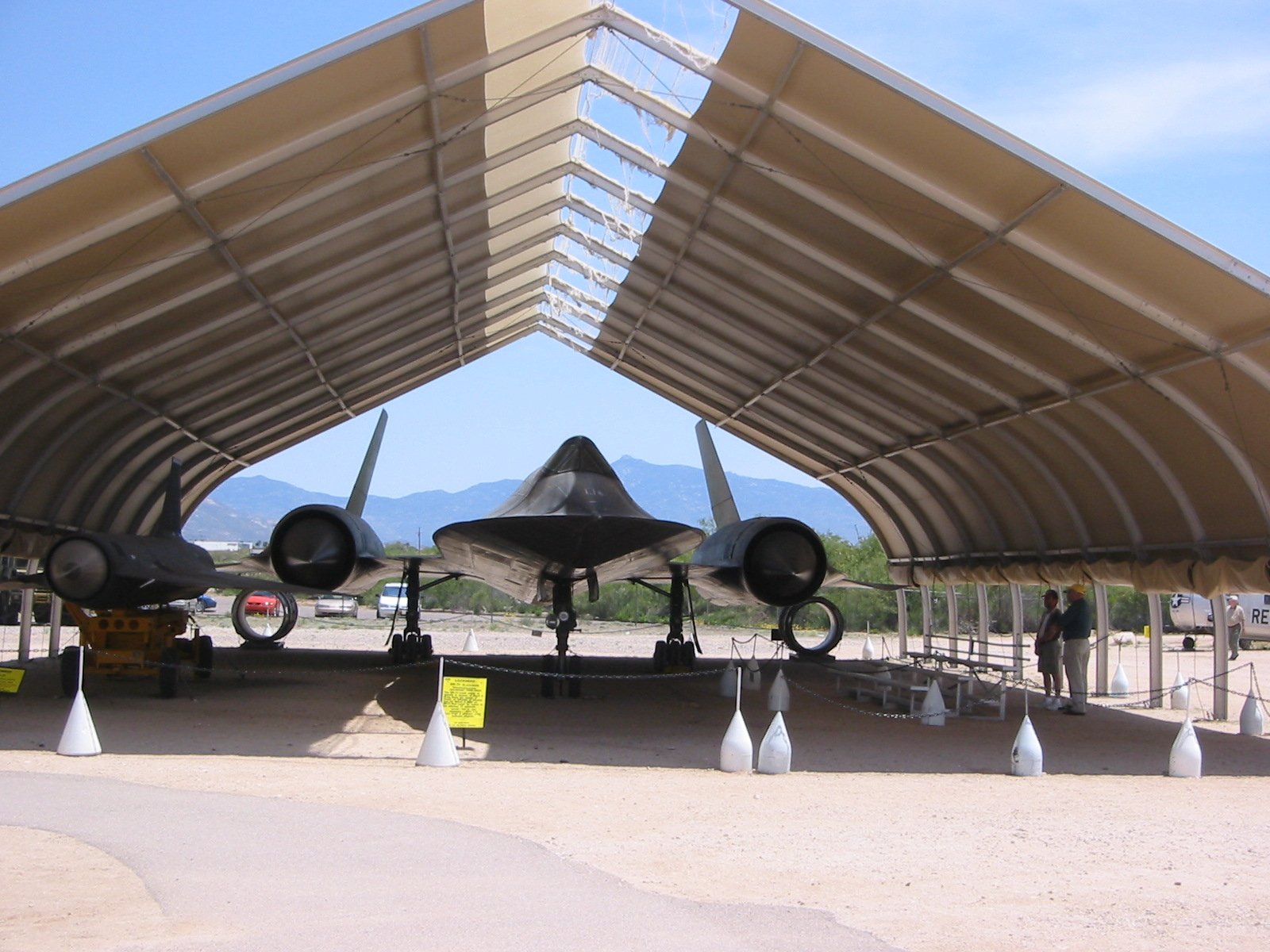 SR-71 Blackbird and the companion D-21B drone at the Pima Air and Space Museum in Tucson, Arizona